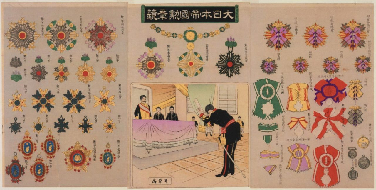 The Display of Imperial Japanese Decorations, woodblock print